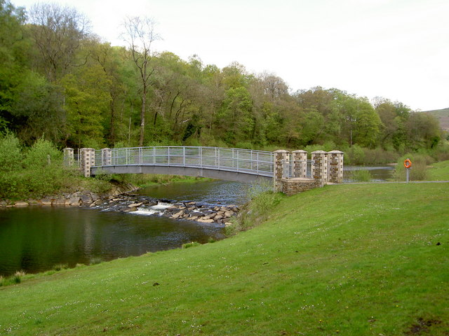 Crossing the Taff Bargoed river Bridge Crossing the Taff Bargoed river between the lakes. These lakes were formed when the valley was reclaimed from the slag heaps which covered the valley. The river had been culverted through the village in order to fill the valley and enable development which made easier mining at Taff Merthyr and Deep Navigation Collieries.